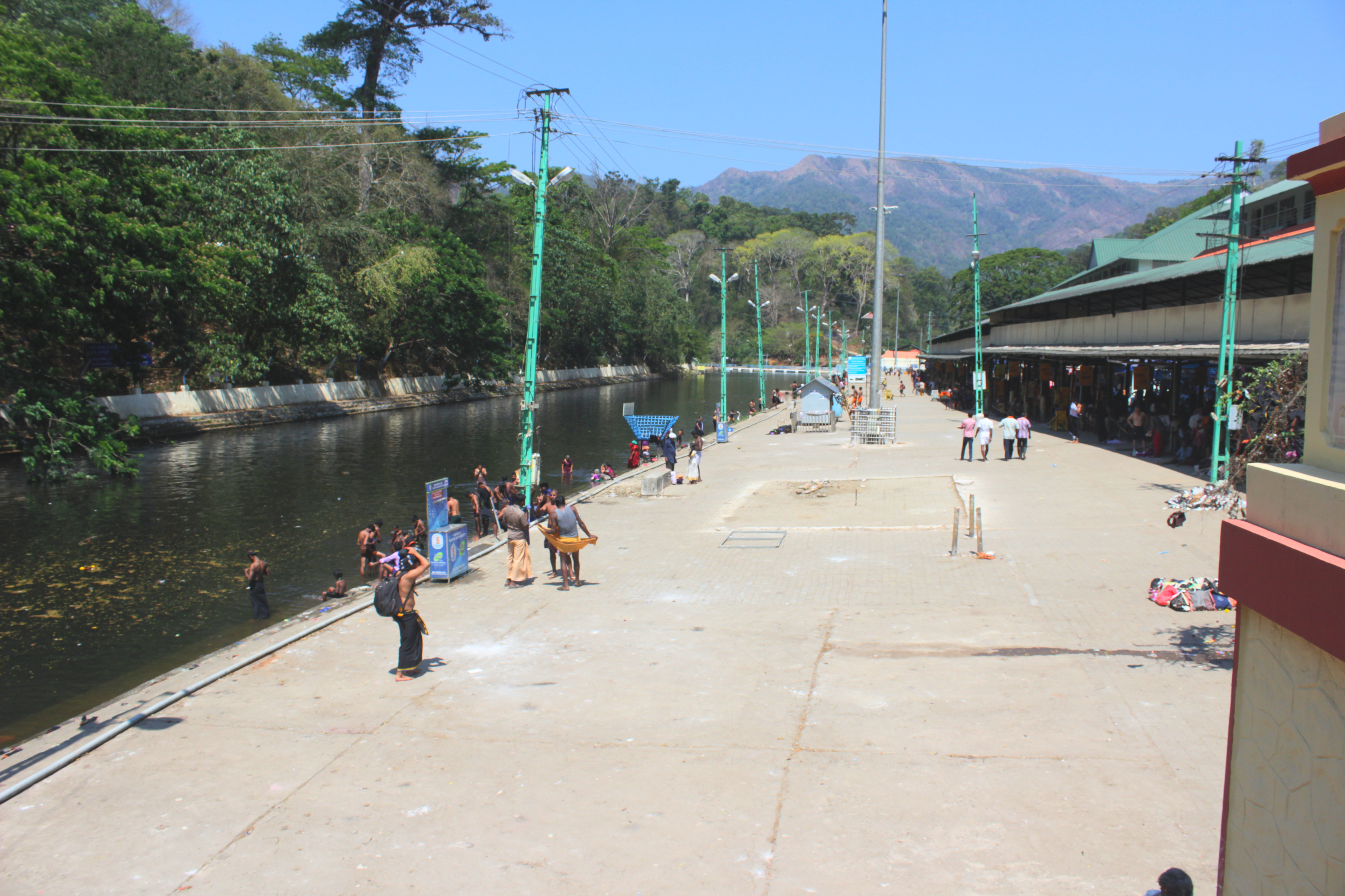 Bathing steps, Pampa.